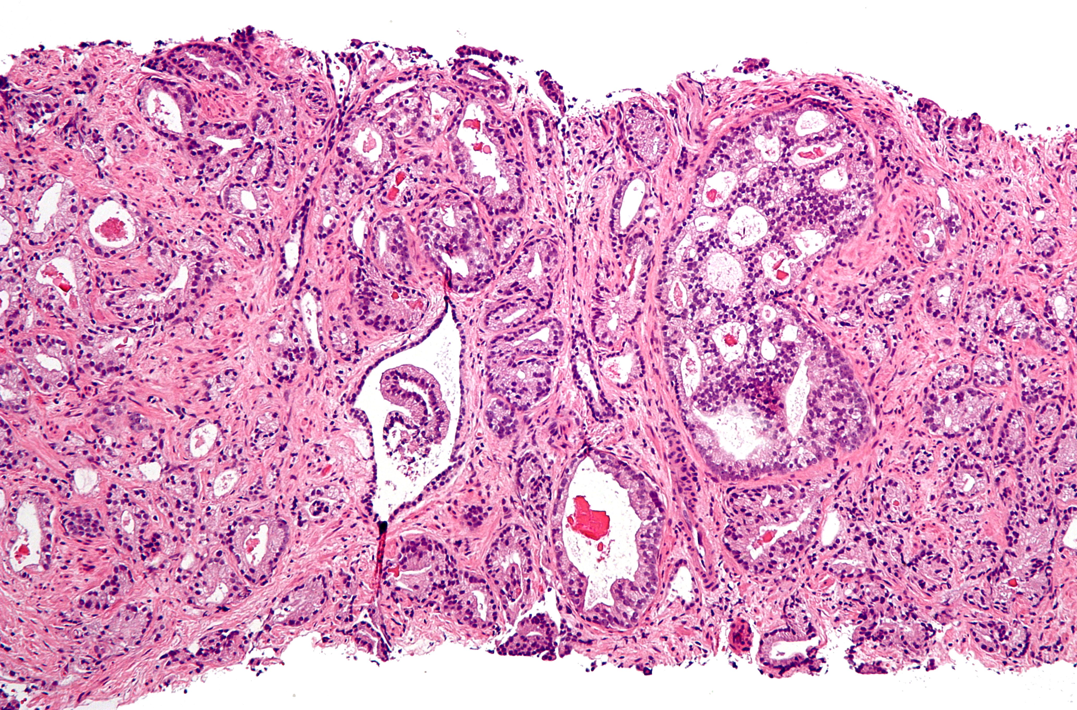 Micrograph showing prostatic acinar adenocarcinoma (the most common form of prostate cancer) Gleason pattern 4. H&E stain. Prostate currettings. See also Image:Gleason 4 and 5 intermed mag.jpg